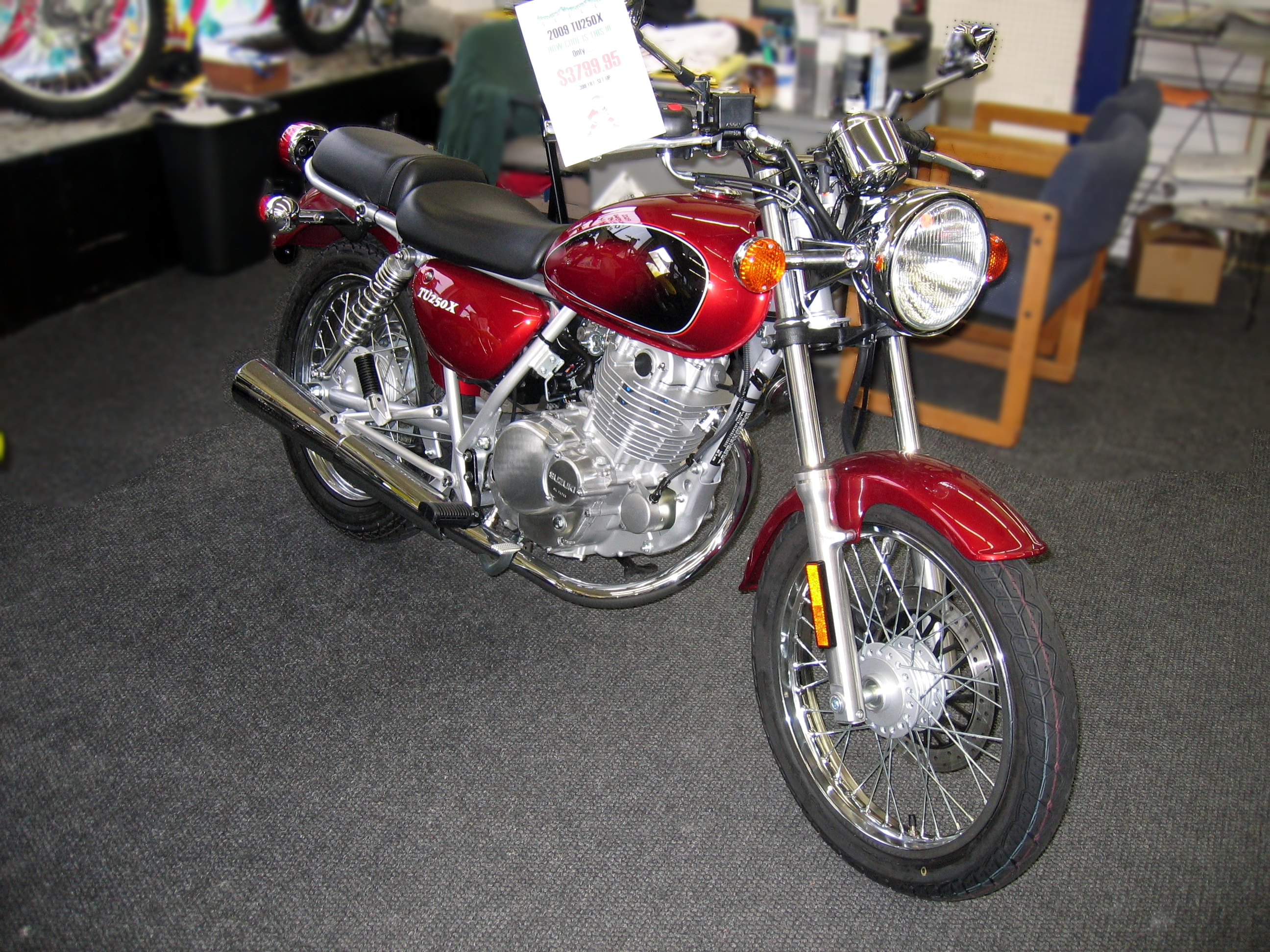 2009 Suzuki TU250X